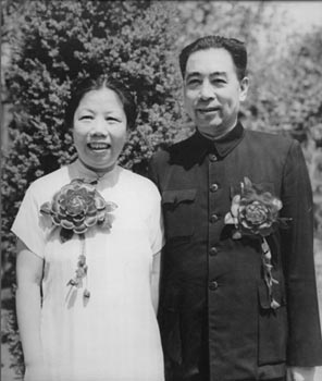 Zhou Enlai, Premier of China with his wife Deng Yingchao.